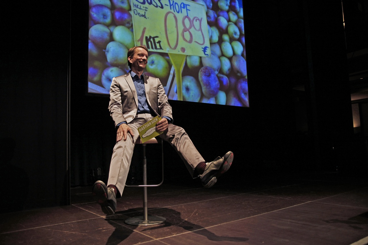 German author Bastian Sick live on stage in Mainz, Germany, 4th of feb. 2012